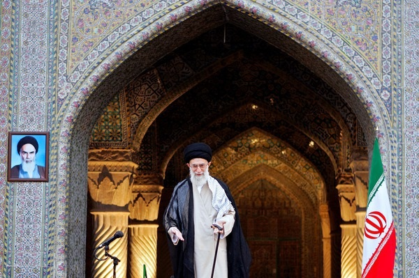 Ayatollah Ali Khamenei, Supreme Leader of Iran speaking at the Imam Reza Shrine